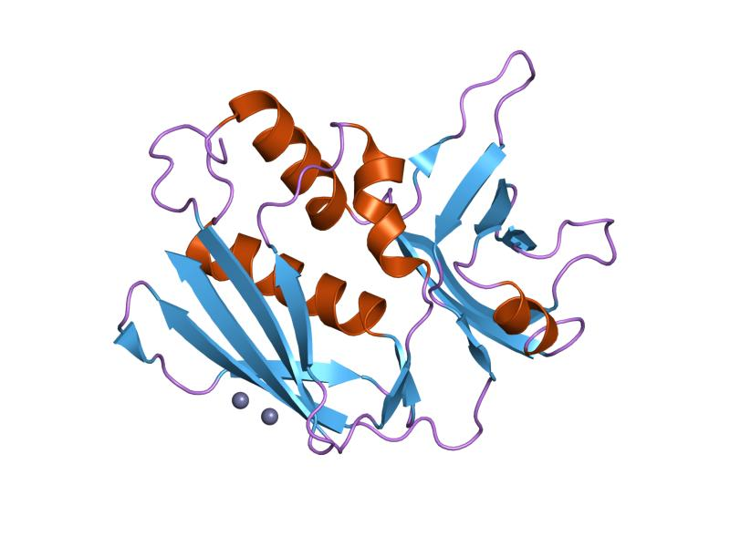 Cartoon representation of the molecular structure of protein registered with 1eu4 code.